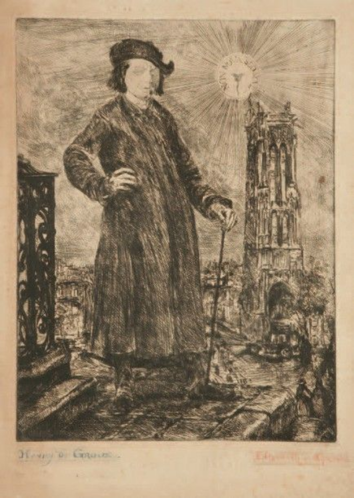 Henry de Groux by his daughter Elisabeth de Groux guess 1920